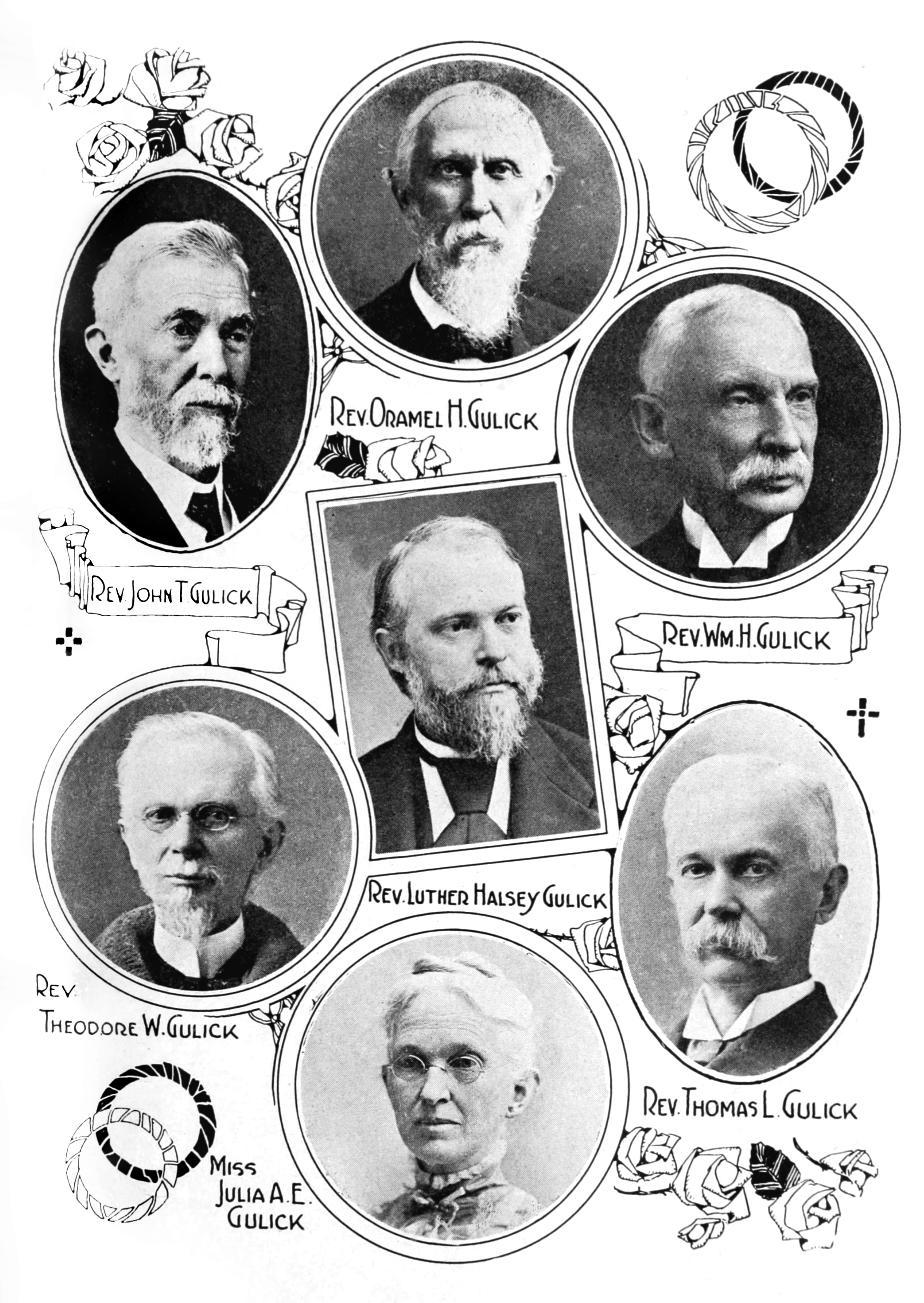 All seven of the surviving children of Peter Johnson Gulick (1796–1877) became missionaries.